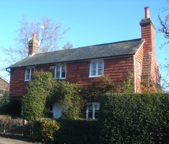 St Margaret's Cottage, Rusper Road, Ifield, Borough of Crawley, West Sussex, England: an early 19th-century cottage, partly tile-hung and with a roof of Welsh slate.Listed at Grade II by English Heritage (IoE code 363394)